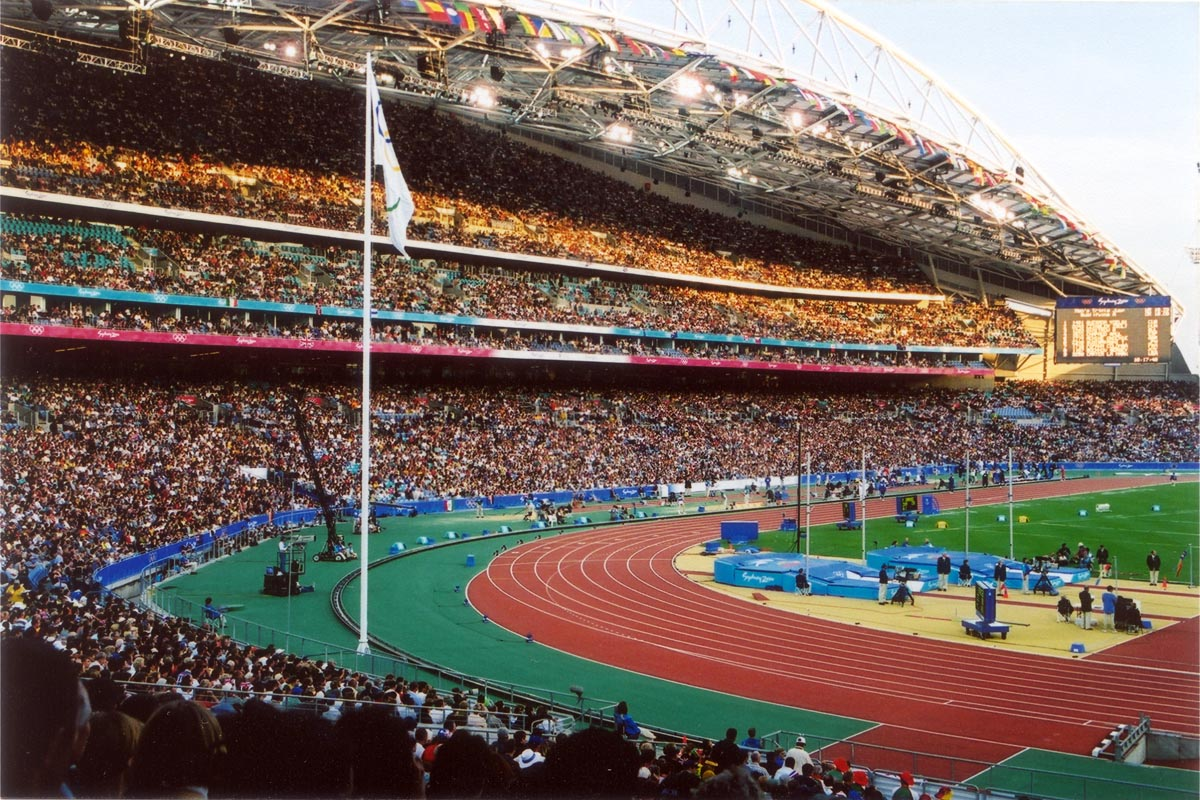 The Olympic flag in Stadium Australia, Sydney.